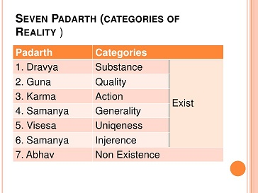 Padarthas or categories